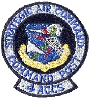 4th AIRBORNE COMMAND & CONTROL SQUADRON 1970 - 1990